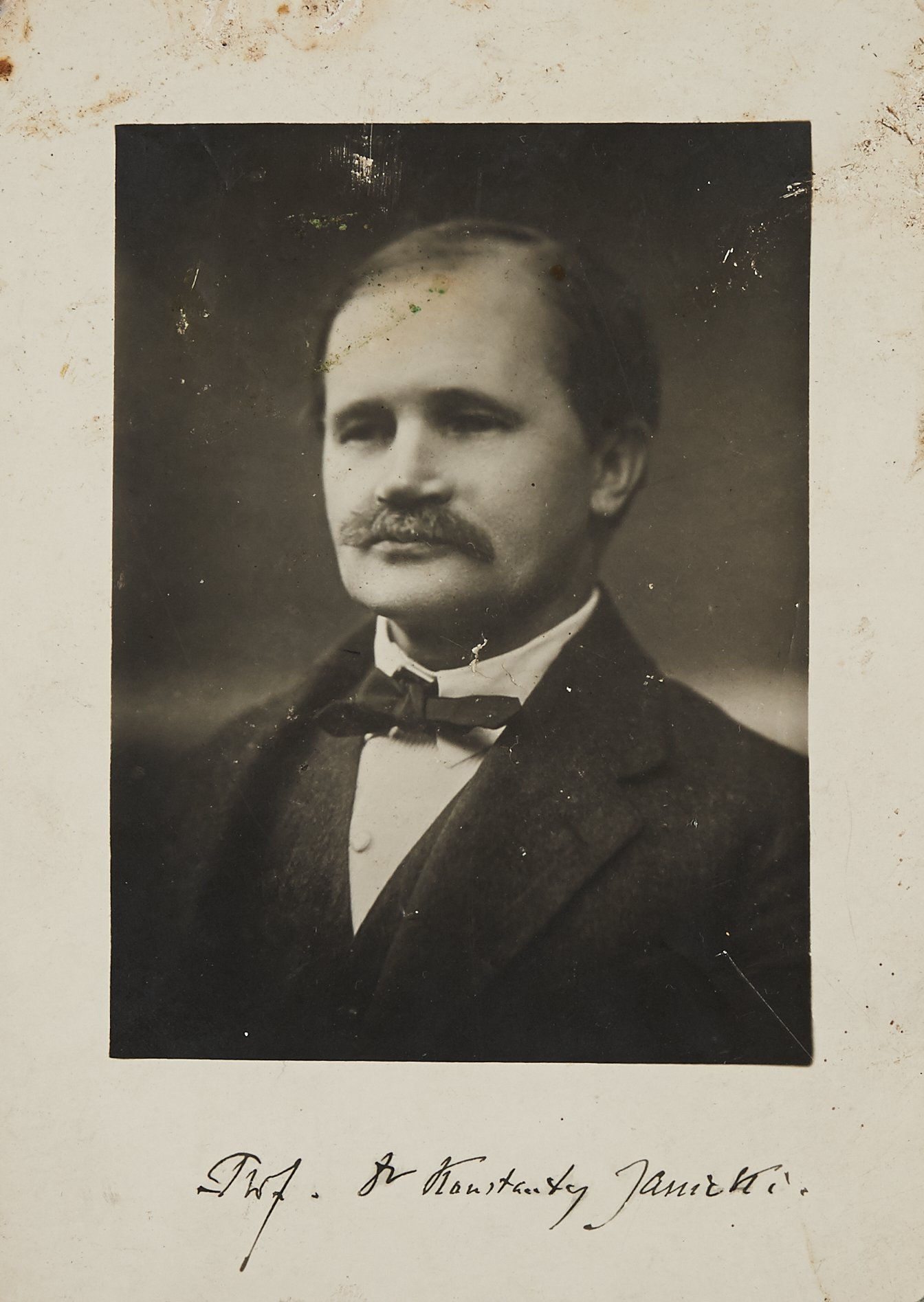 Prof. Konstanty Janicki